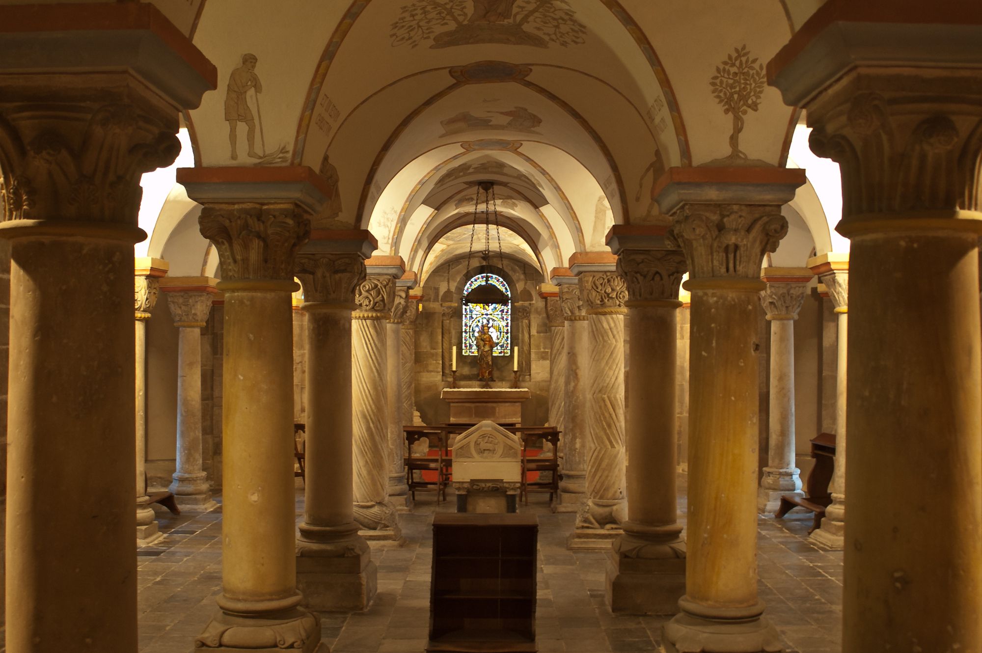 Rolduc Abbey Church: Interior of the crypt facing east with the assumed tomb of Ailbert of Antoing (? - 1122), founder and first abbot of Rolduc.